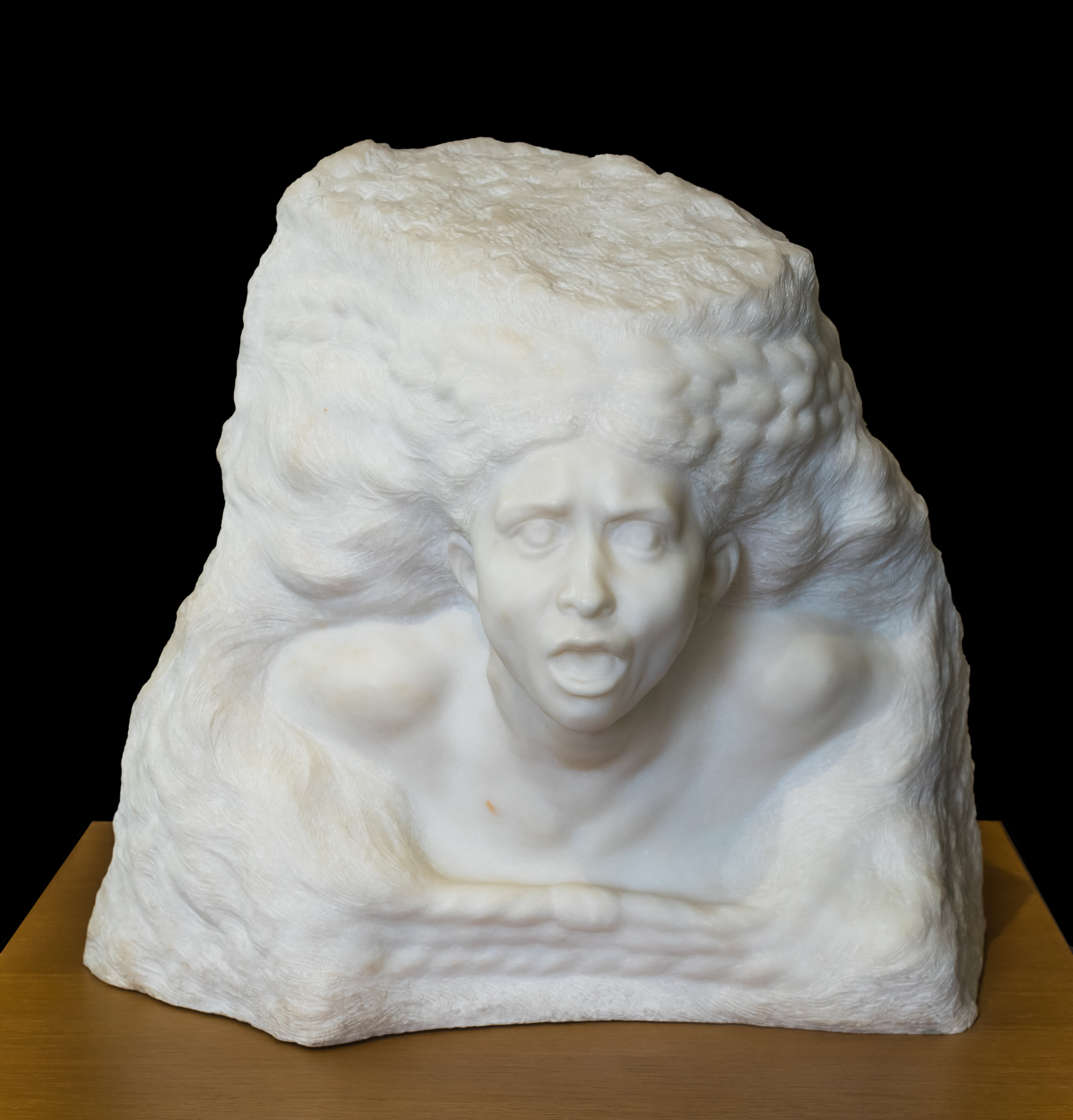 The Tempest (1898), Auguste Rodin, marble